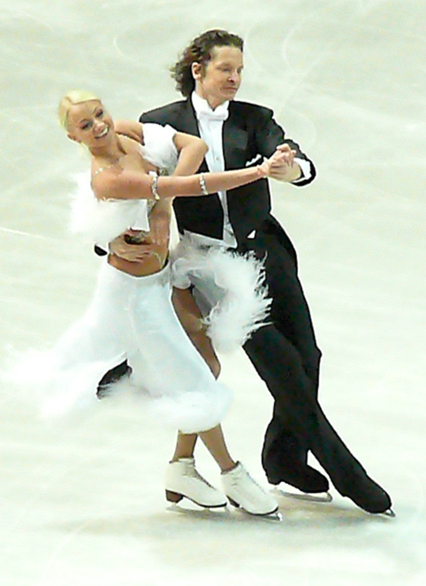 Oksana Domnina and Maxim Shabalin (RUS) at the compulsory dance of the European Championships 2007 in Warsaw